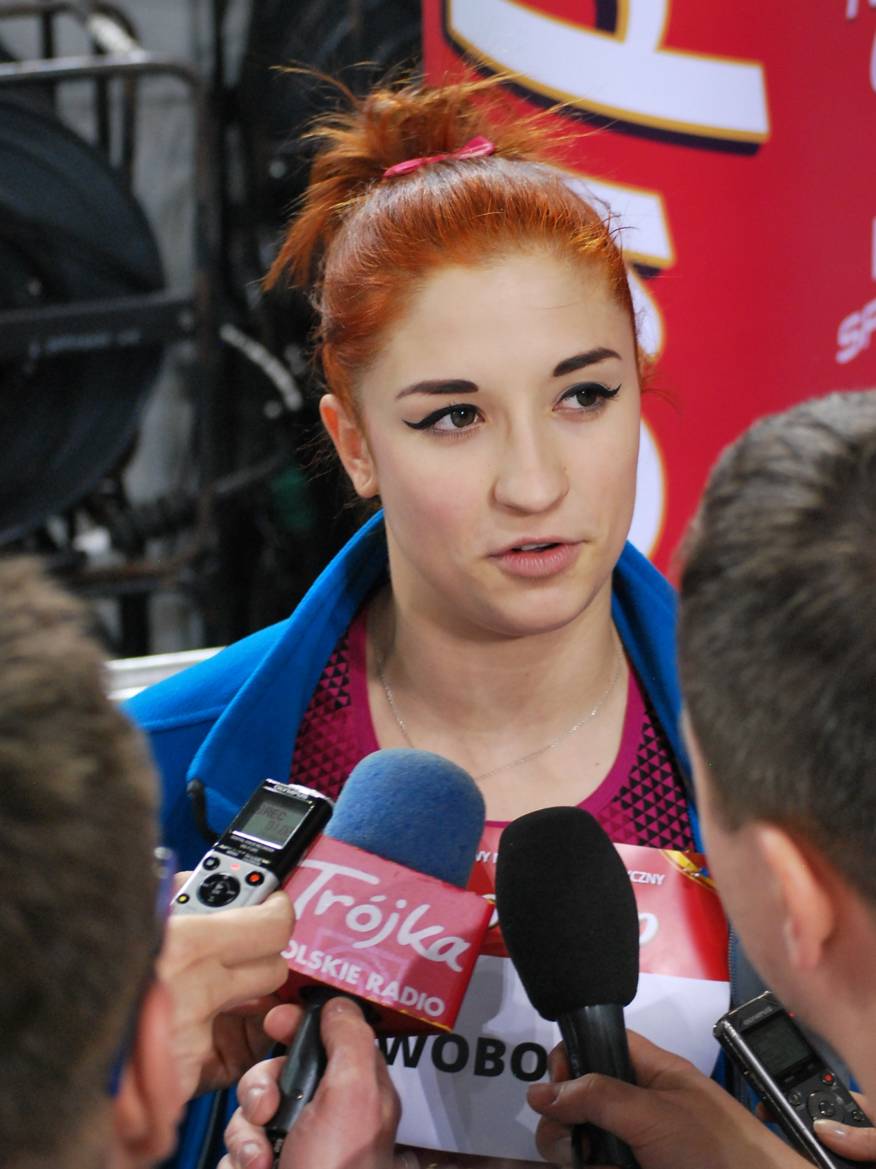 Pedros Cup 2015 Łódź, Ewa Swoboda, sprinter from Poland